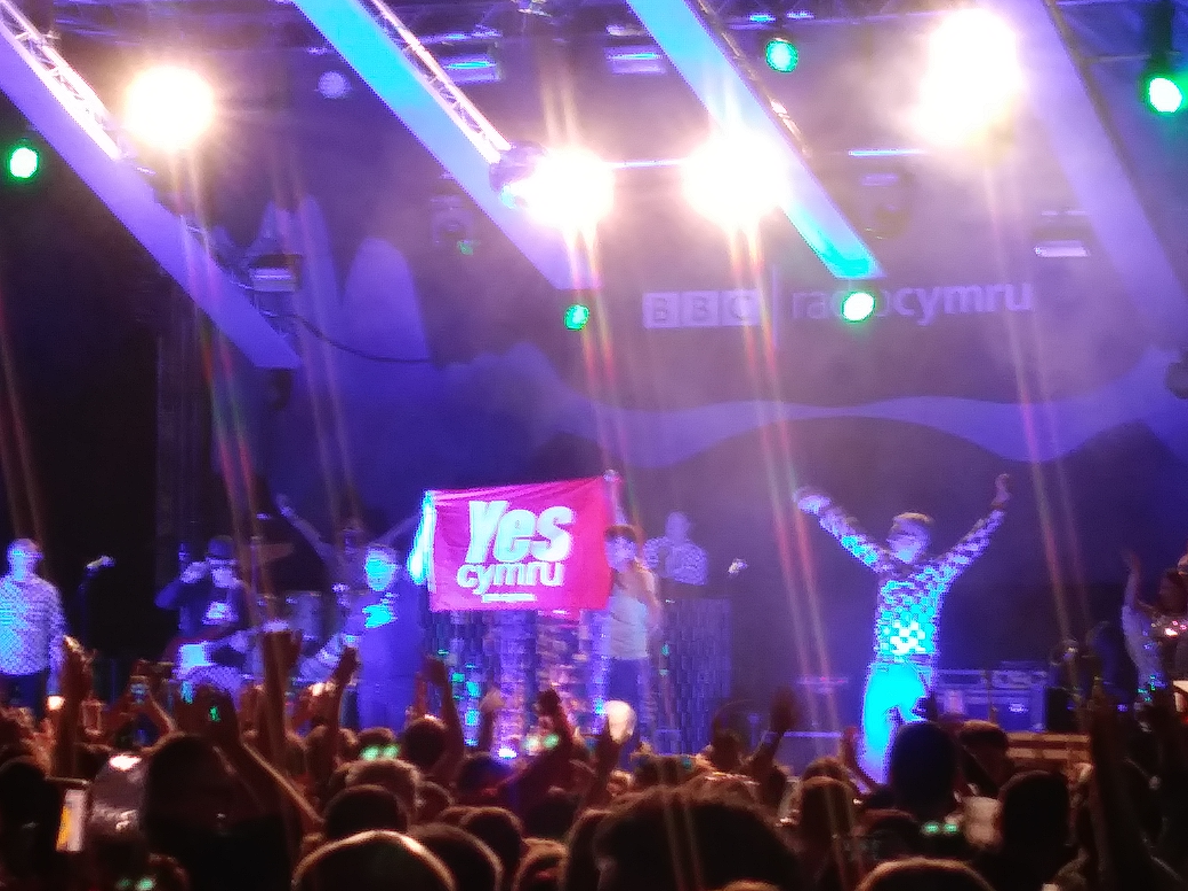 Yes Cymru banner at Eisteddfod 2018 gig